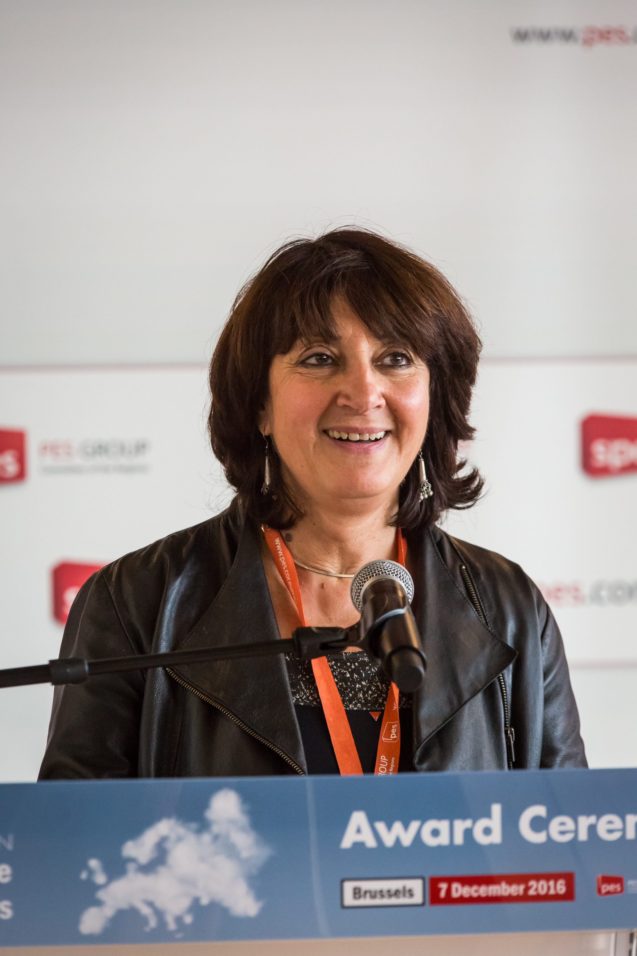 Award ceremony of the PES Group photo competition 'Imagine Europe without Borders' Belgium - Brussels - December 2016